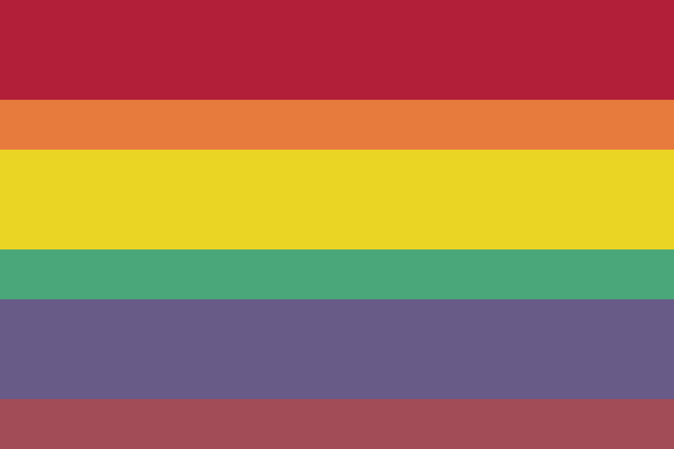 Flag proposed for the first Republic of Armenia by artist Martiros Saryan.